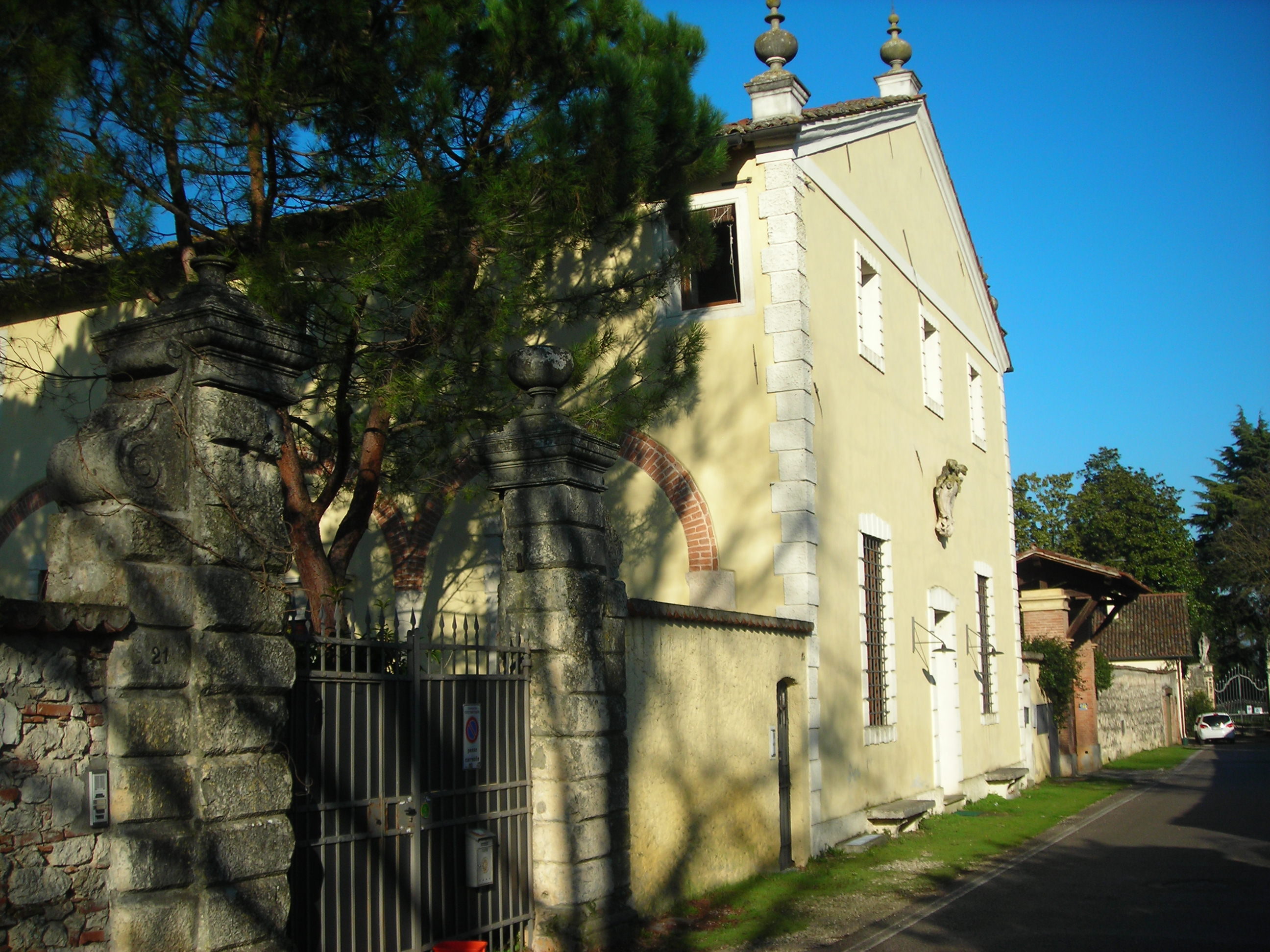 De Buzzacarini Farm, via Sant'Antonio, Costabissara